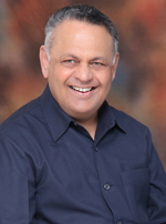 Photo of Mr. P.A.Inamdar , Pune